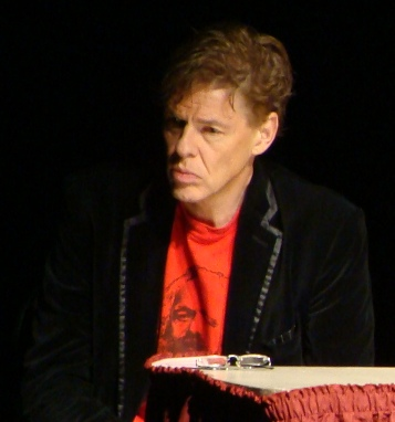 Michael Tye, at the Toward a Science of Consciousness Conference, Arizona